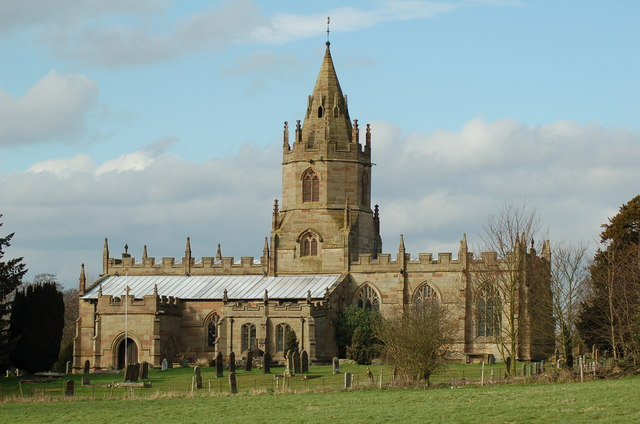 St Batholomew's parish church, Tong, Shropshire, seen from the south